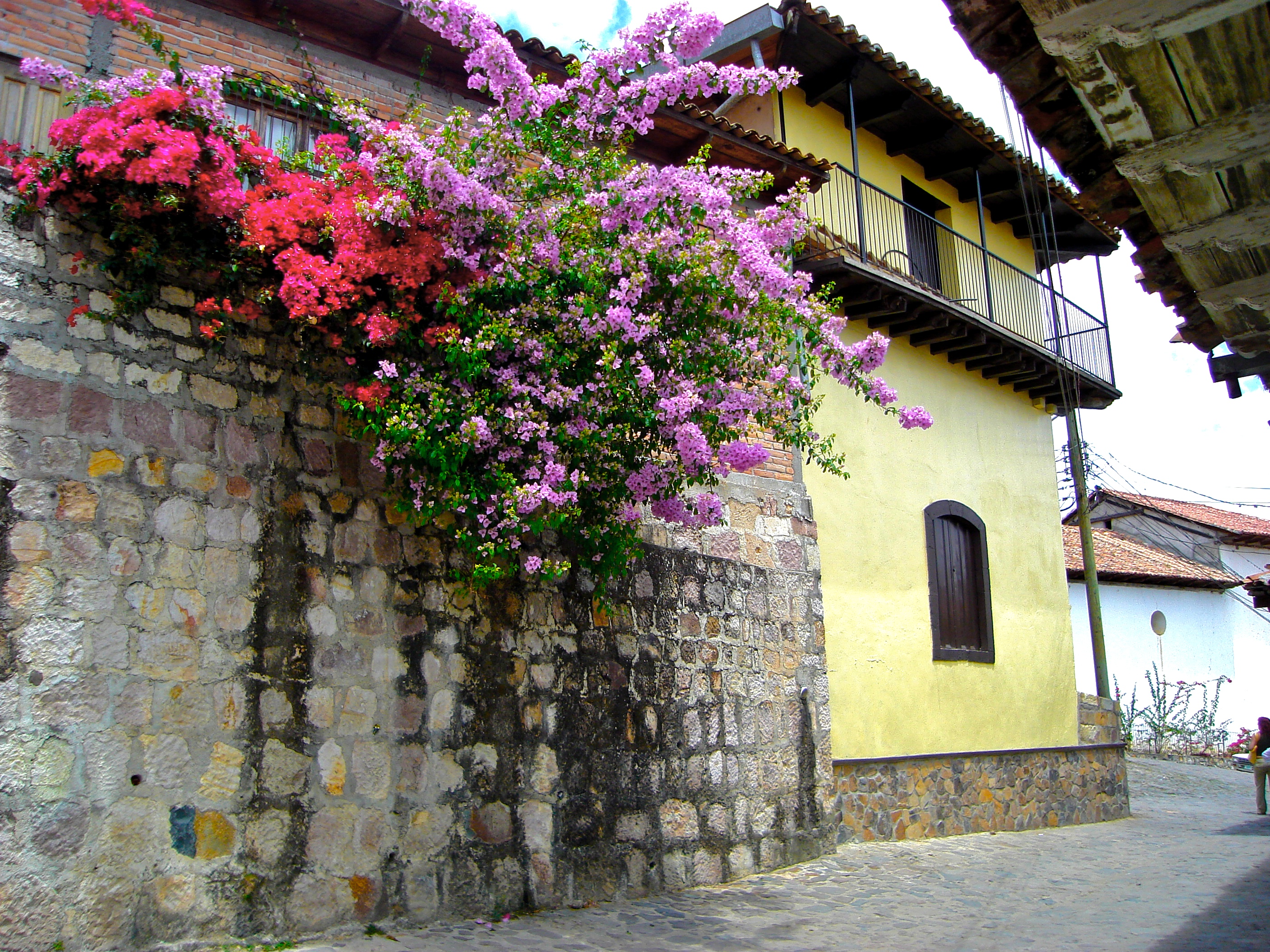 Little alley in Yuscarán, Honduras